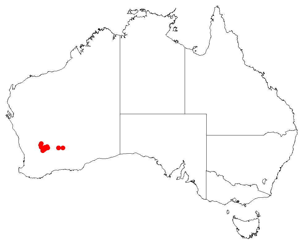 Hakea rigida Occurrence data downloaded from Australasian Virtual Herbarium on 22 November 2018 using